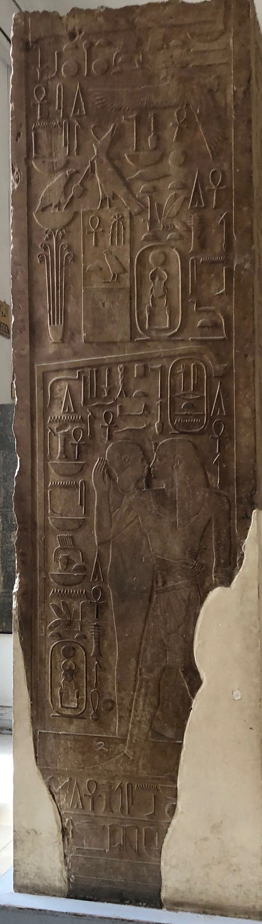 Pillar of Senwosret I. face showing Senwosret and Ptah. Upper Egypt, Karnak, temple of Amun, courtyard of the hiding place. Limestone. H. overall: 434 cm, L. 95 cm. Middle Kingdom, 12th dynasty, reign of Senwosret I. Cairo, Egyptian Museum, inv. JE 36809.